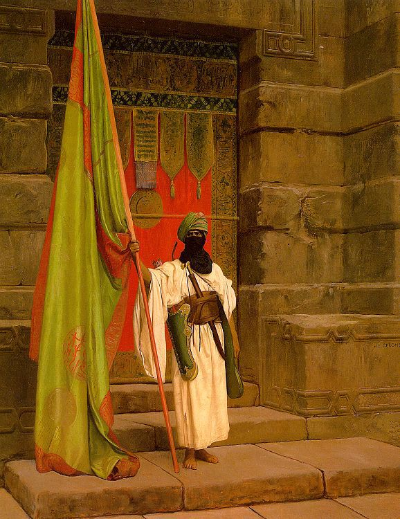 The Standard Bearer